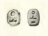 Picture of two scarabs with the name Rahotep, believed by Petrie to refers to phaaoh Rahotep of the 17th Dynasty, Second Intermediate Period.